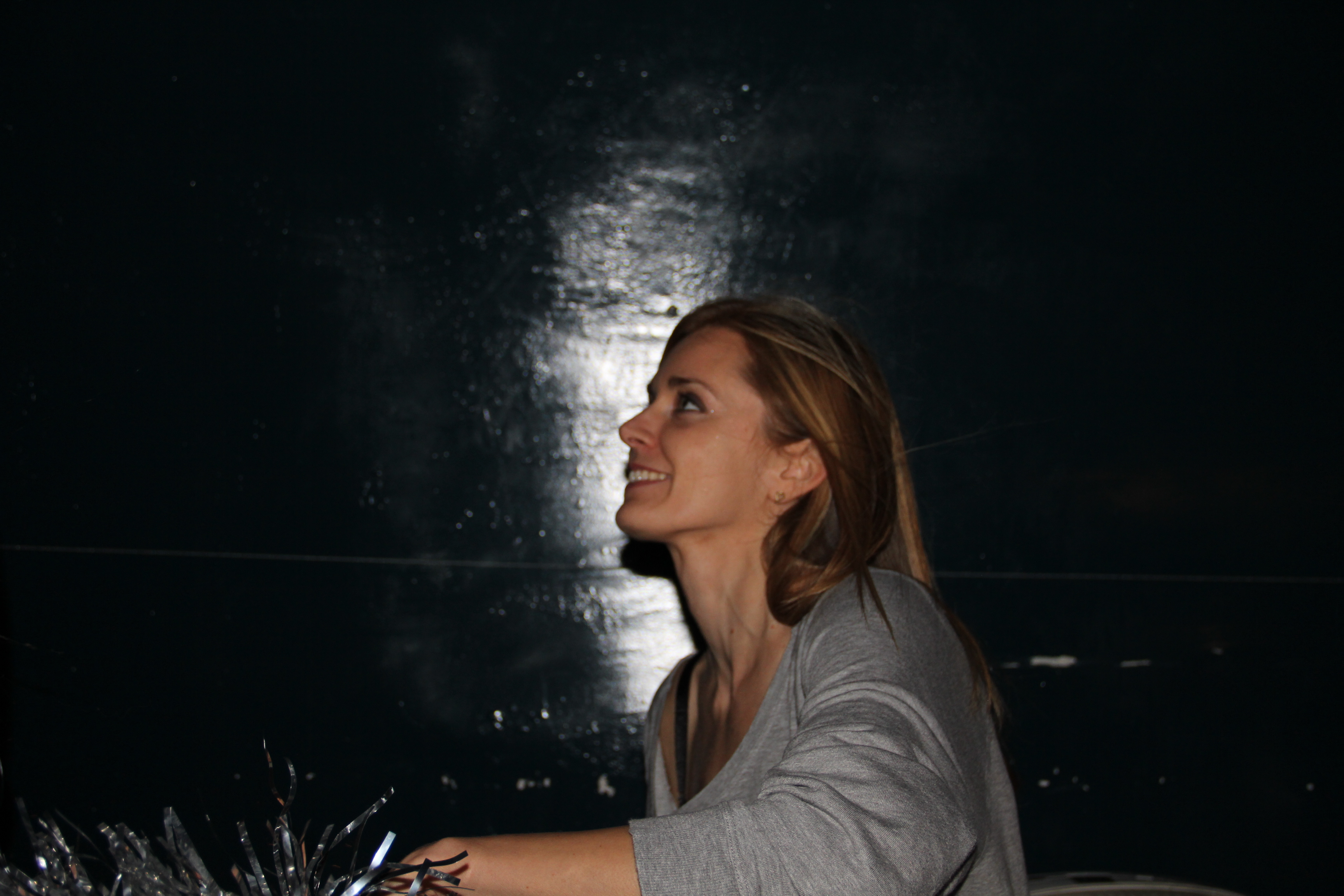 Emmanuelle Schick Garcia, photo from On Mag interview December, 2013.